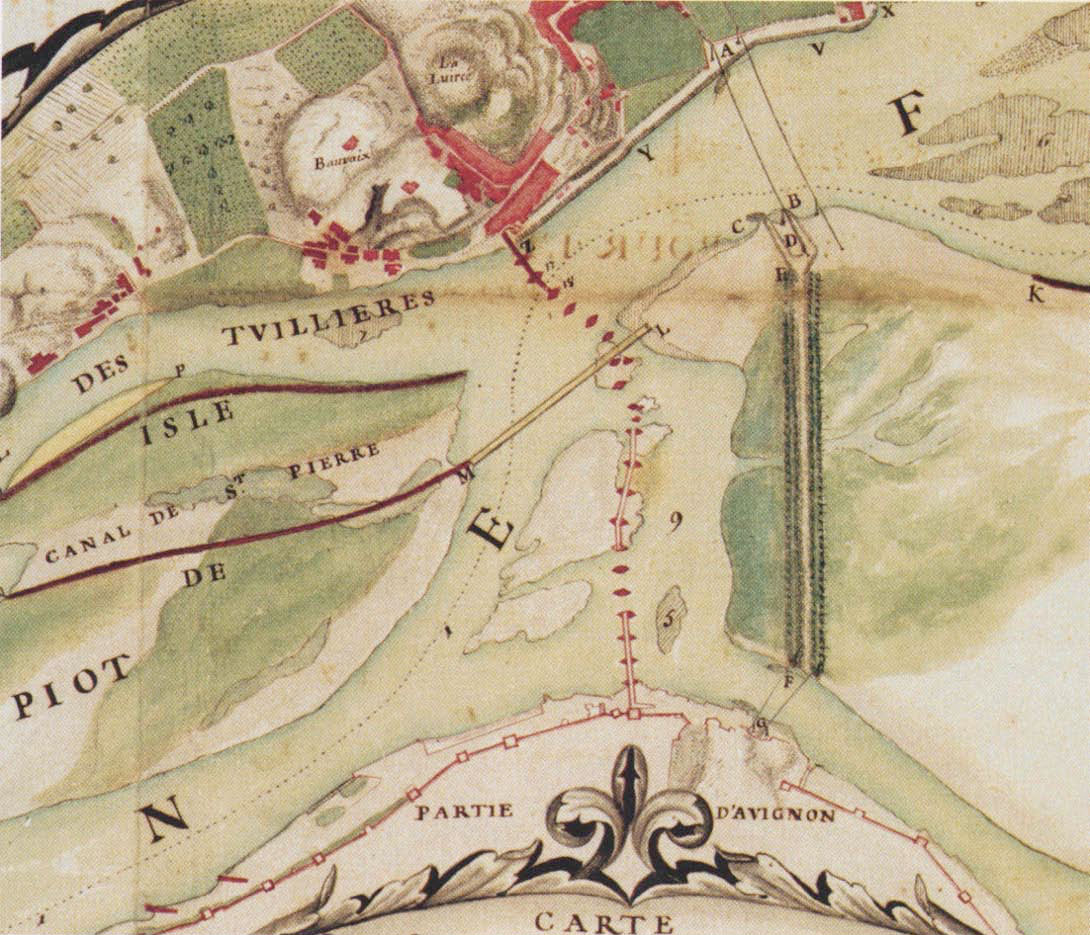 Detail of a map showing the Rhône at Avignon and the abandoned Pont Saint-Bénézet bridge in 1685. The map was produced as part of a project to block the arm of the Rhône that flowed near Avignon and to create a port on the right bank of the river near Villeneuve-lès-Avignon. The project was never realised. The map is signed by Jean François de Montaigu who was an engineer working for Louis XIV of France. The map is mentioned in Sournia & Vayssettes (2006). The 14th century ramparts of Avignon are shown in red at the bottom and Villeneuve-lès-Avignon is at the top. A-B indicates the path of the chain ferry between Villeneuve and the Île de la Barthelasse. E-F is the trackway across the island. F-G is the cable ferry from the island to the quay at Avignon. The piers of the abandoned bridge are shown in red. Only 20 of the 21 piers are shown. The omitted pier was on the river bank near the Tour Philippe-le-Bel at the top of the map. The map indicates that by this date arches 5-7 and 12-18 had collapsed.